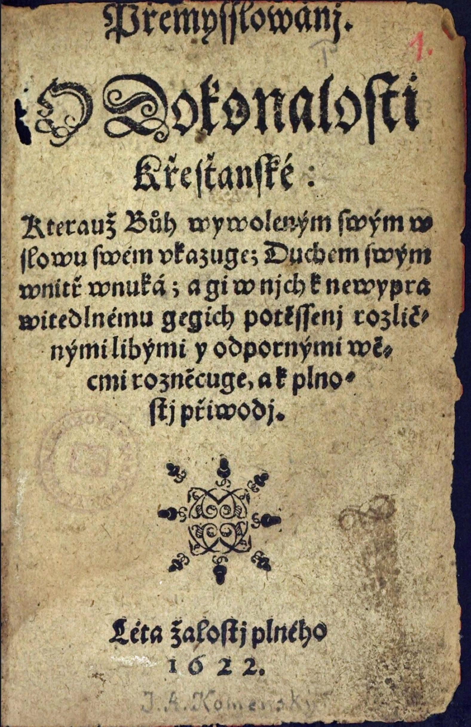 John Amos Comenius: Přemyšlování o dokonalosti křesťanské. Cover of the edition 1622, Prague.